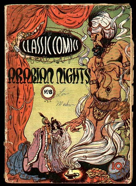 Cover scan of a Classics Comics book